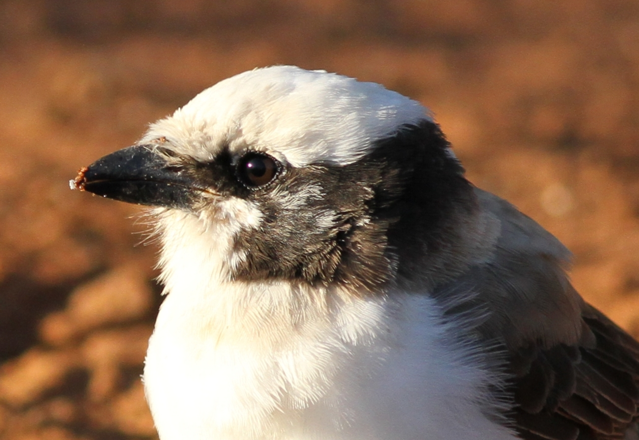 Southern White-crowned Shrike, Eurocephalus anguitimens, gleaning ants from the early morning soil at Marakele National Park, South Africa